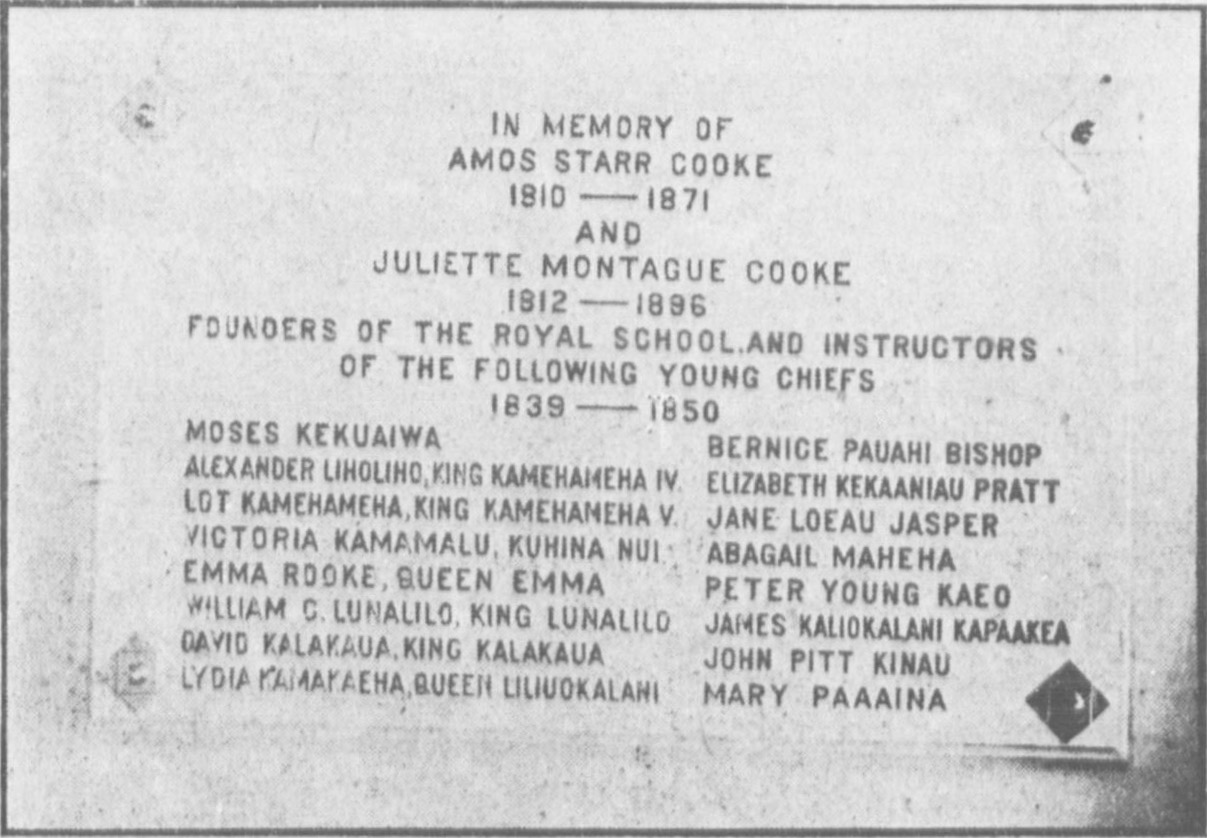 The Cooke Memorial Tablet enveiled at Kawaiahaʻo Church by Queen Liliuokalani and High Chiefess Elizabeth Kekaaniau Pratt, March 17, 1912, in honor of the 100th anniversary of the birth of Juliette Montague Cooke. The tablet is of marble and is six feet long, four feet wide and six inches thick, and the inscription reads as follows: In Memory of Amos Starr Cooke, 1810—1891, and Juliette Montague Cooke, 1812—1896. Founders of the Royal School and Instructors of the Following Young Chiefs, 1839—1850: Moses Kekuaiwa, Alexander Liholiho, King Kamehameha IV; Lot Kapuaiwa, King Kamehameha V; Victoria Kamamalu, Kuhina Nui; Emma Rooke, Queen Emma; William C. Lunalilo, King Lunalilo; David Kalakaua, King Kalakaua; Lydia Kamakaeha, Queen Liliuokalani; Bernice Pauahi Bishop, Elizabeth Kekaaniau Pratt, Jane Loeau Jasper, Abagail Maheha, Peter Young Kaeo, James Kaliokalani Kapaakea, John Pitt Kinau, and Mary Paaaina. [1]